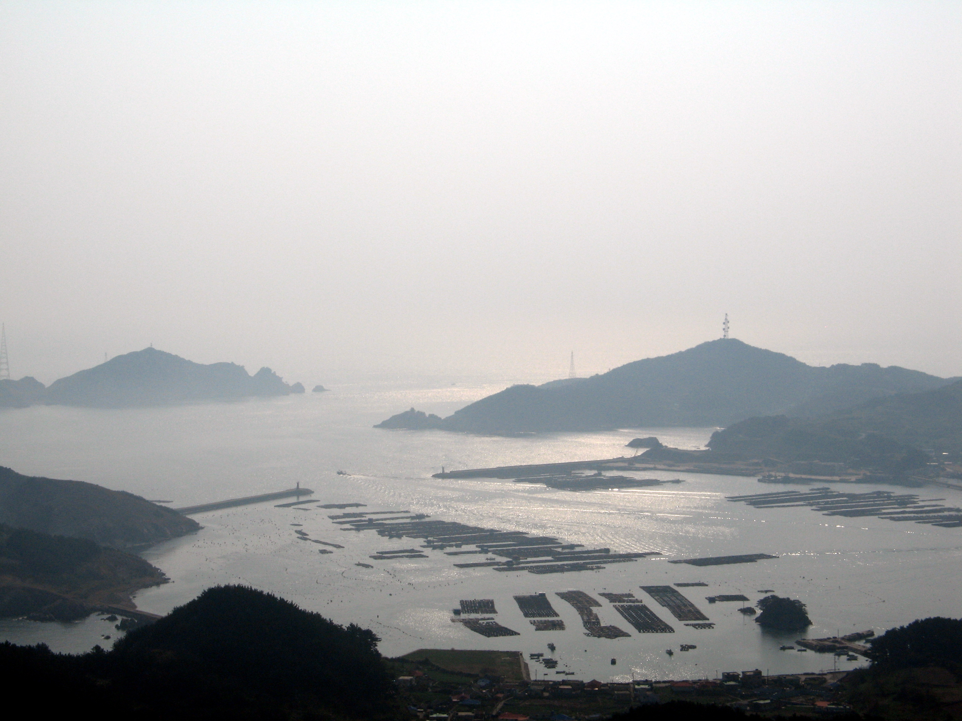 Heuksando Island, South Korea